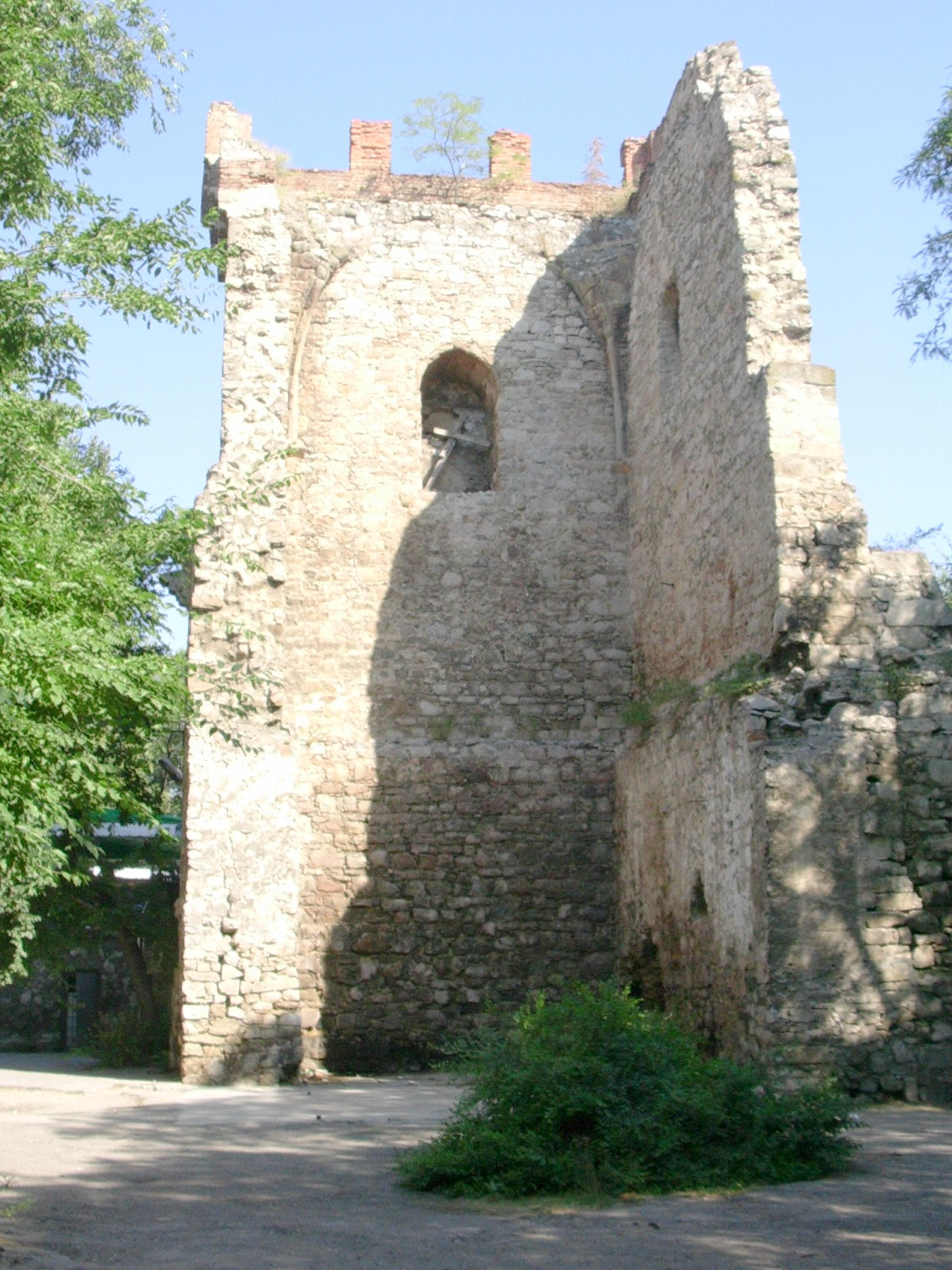 St. Constantine Tower, c. XIV/XV, Theodosia, Crimea